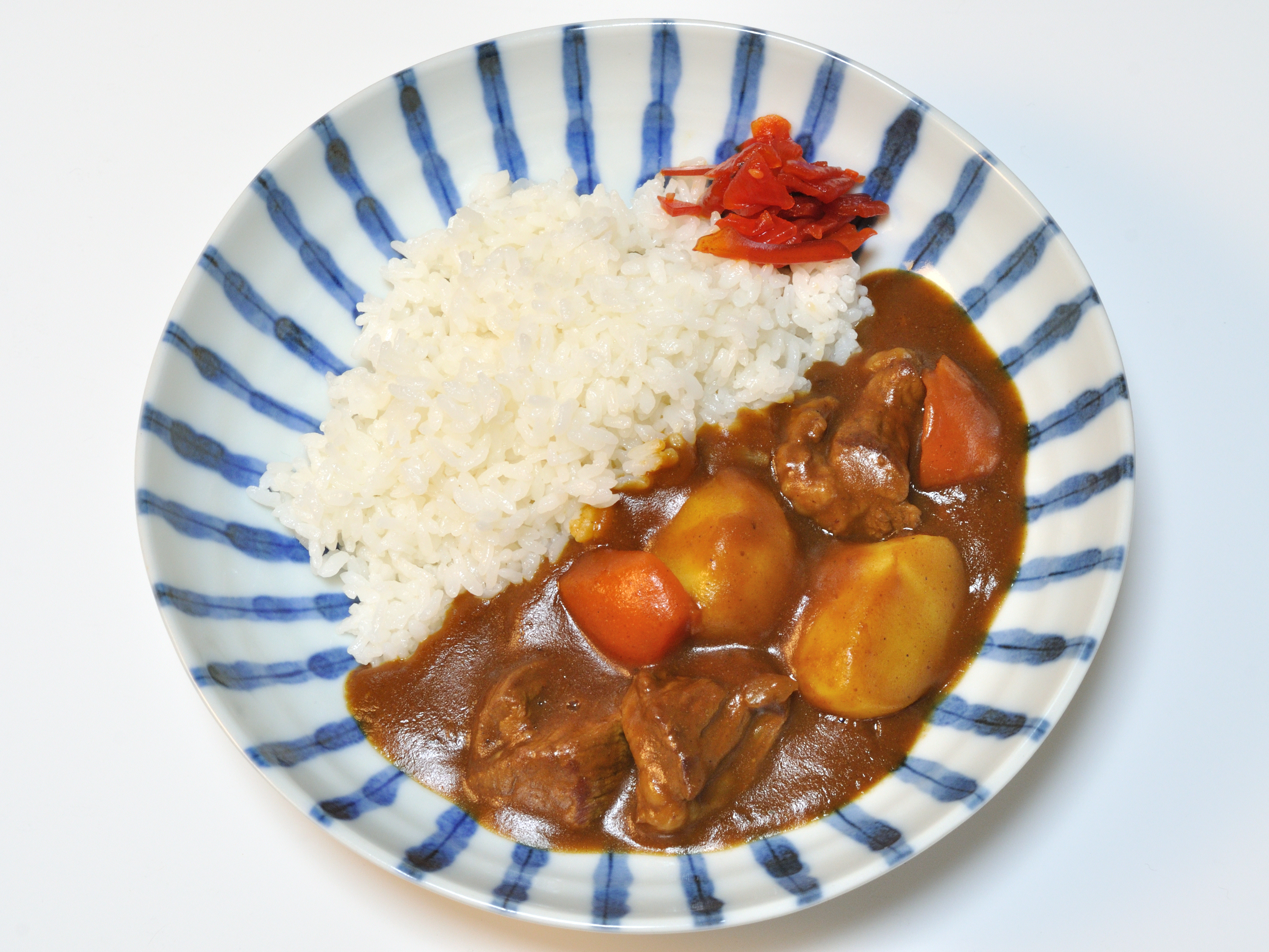 Home made curry rice from Japan.